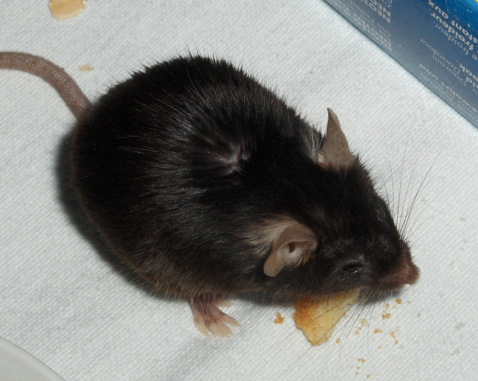 Lab mouse of strain C57BL/6 = Black 6, female, 22 months of age, while eating a crumb of cake